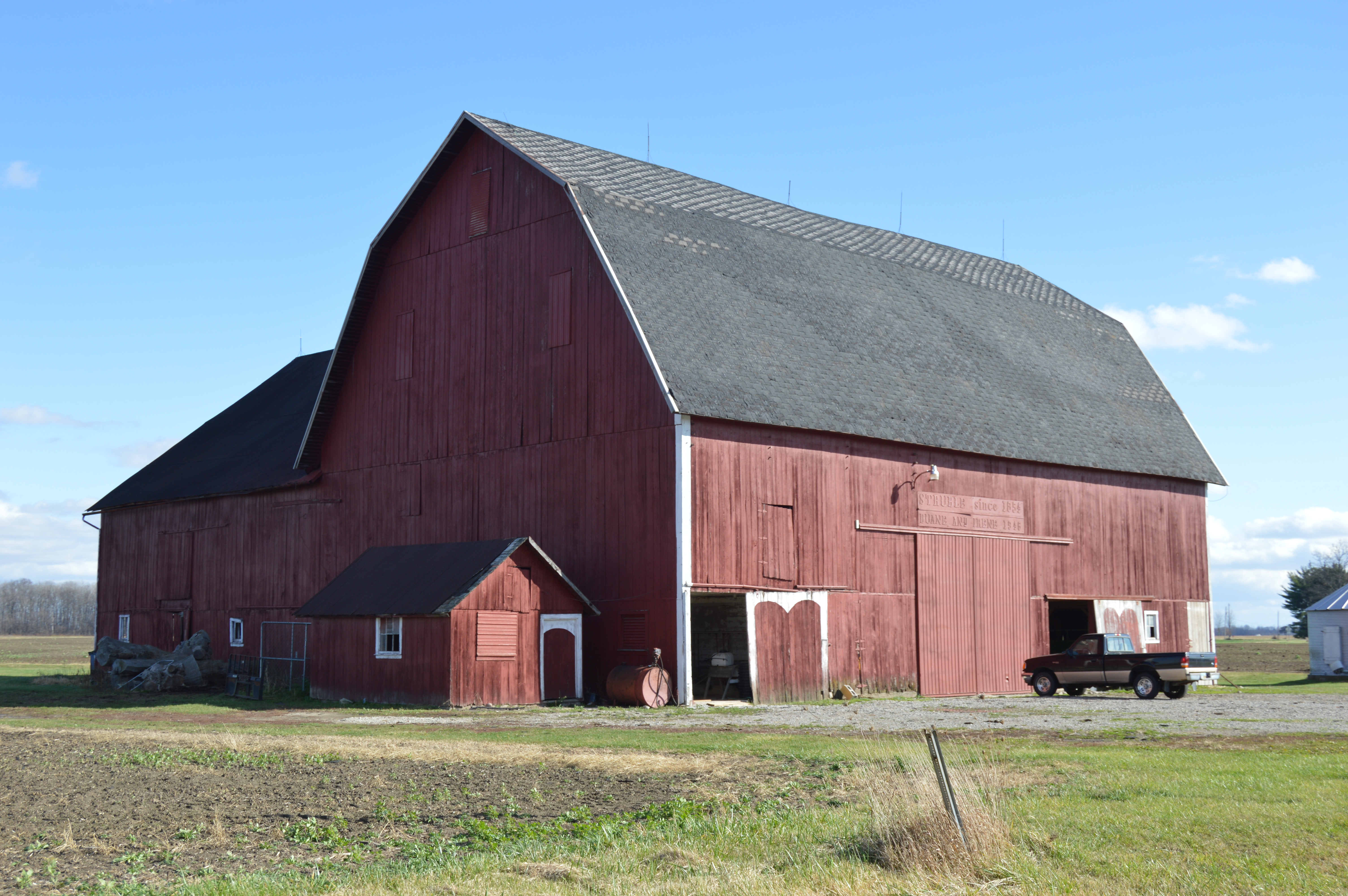 Northwestern side and front of a barn on Ney Williams Center Road northwest of Ney in Washington Township, Defiance County, Ohio, United States.